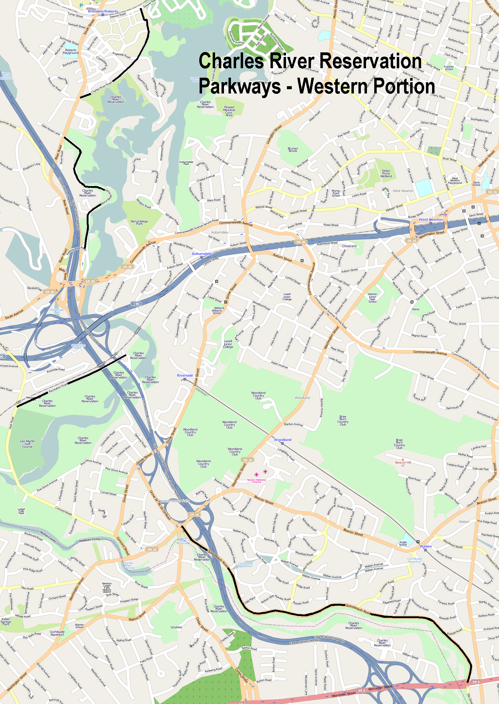 Charles River Reservation Parkways, Boston, Watertown, Newton, and Weston Massachusetts. This is the western portion of the collection.